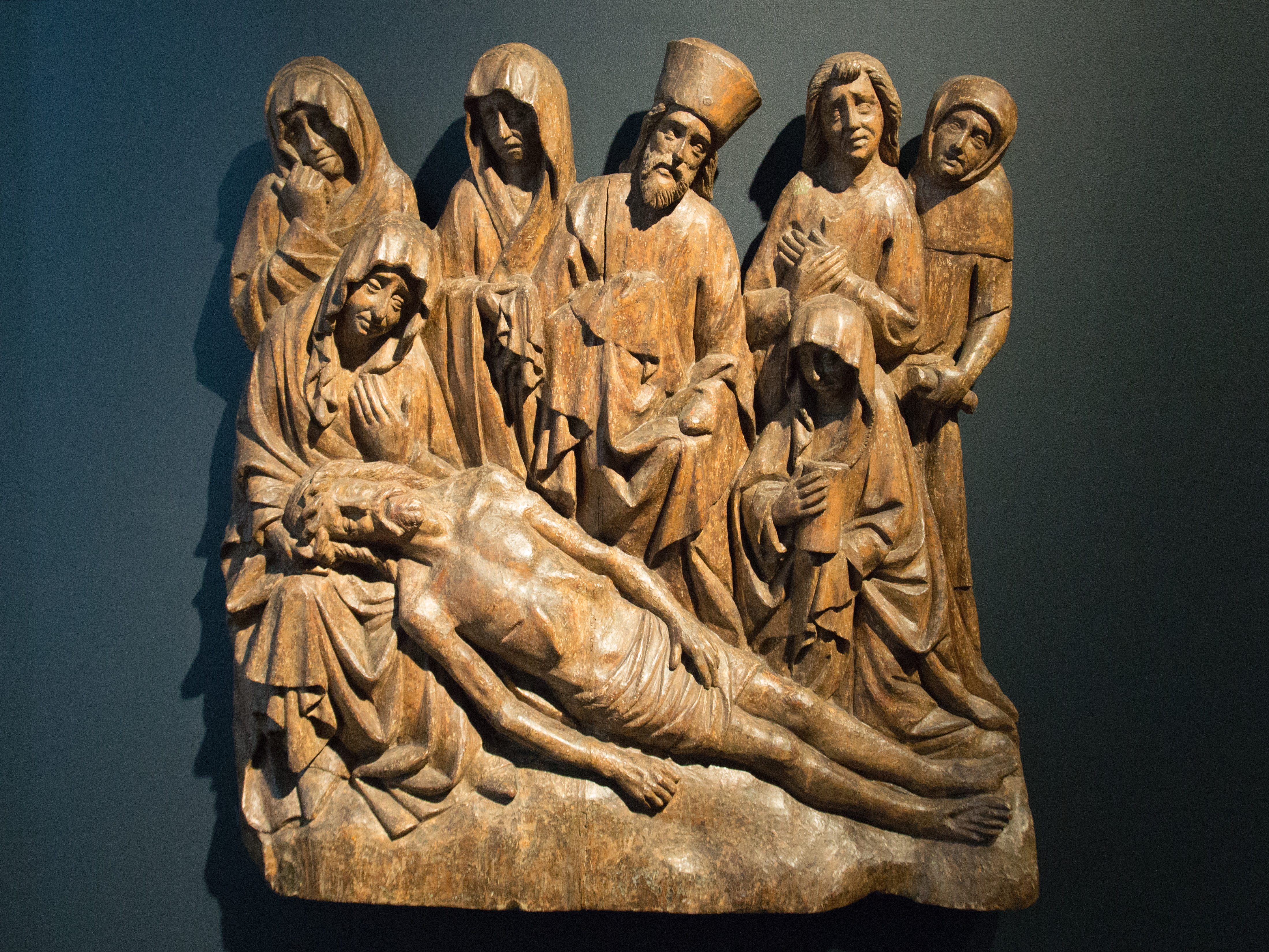 Christ weeping from the Church of Our Lady Before Týn. Master of the Týn Calvary, linden wood, without polychromy, 1420 -1430. The City of Prague Museum.